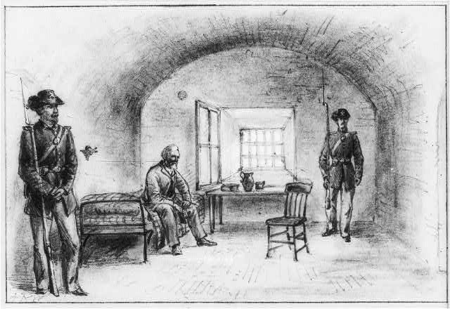 The casemate, Fortress Monroe, Jeff Davis in prison